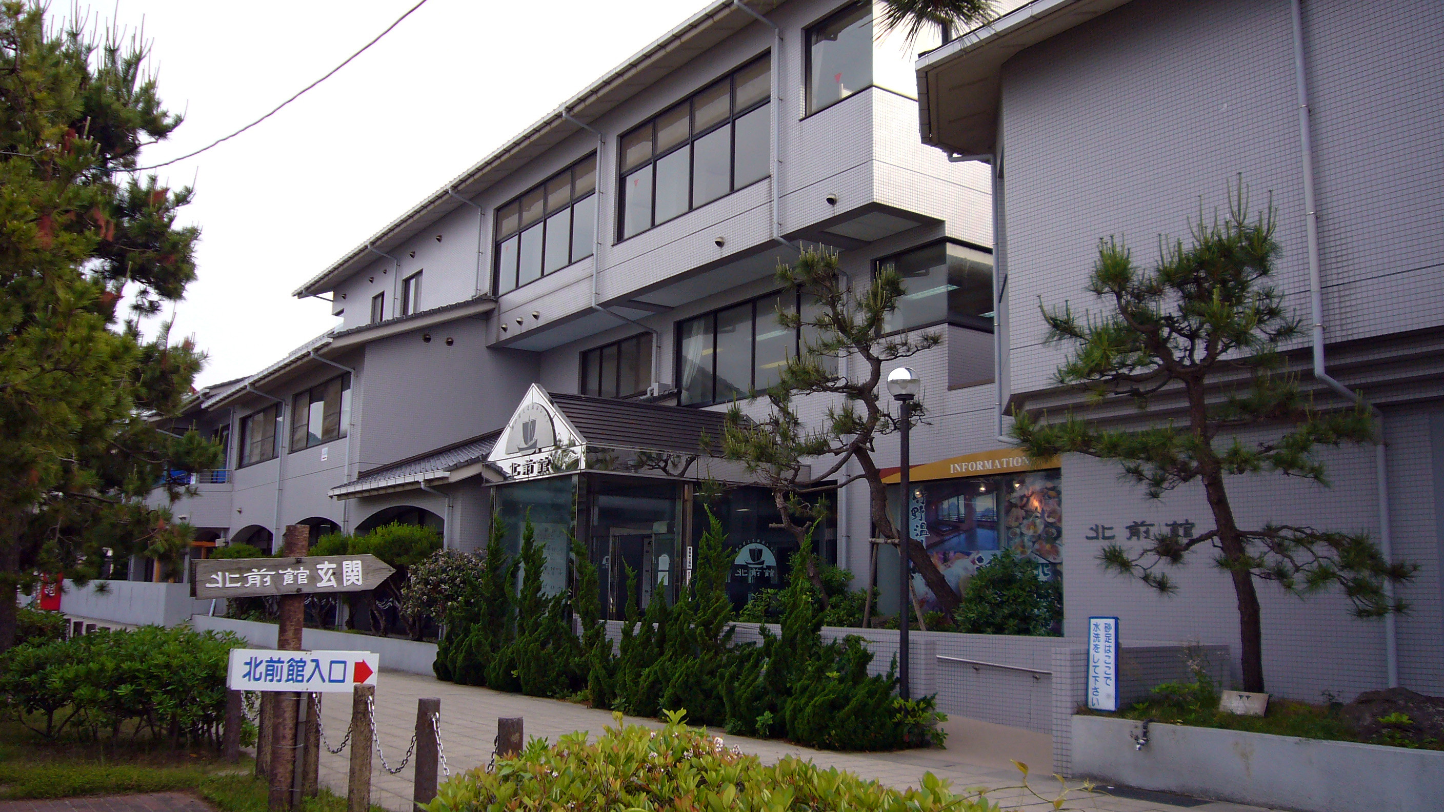 Kitamaekan in Toyooka, Hyogo prefecture, Japan